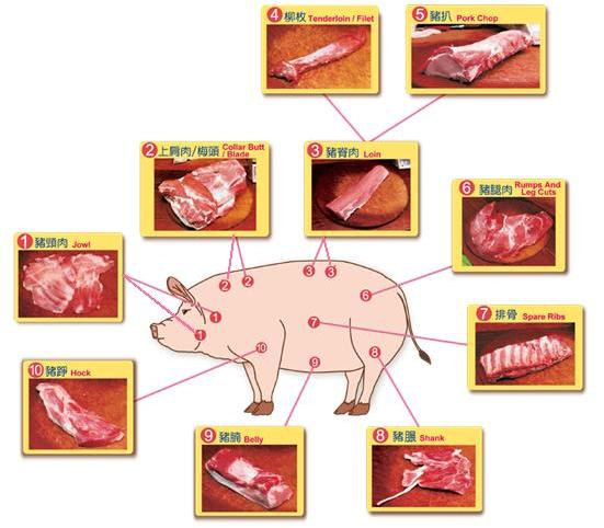 different parts of pork